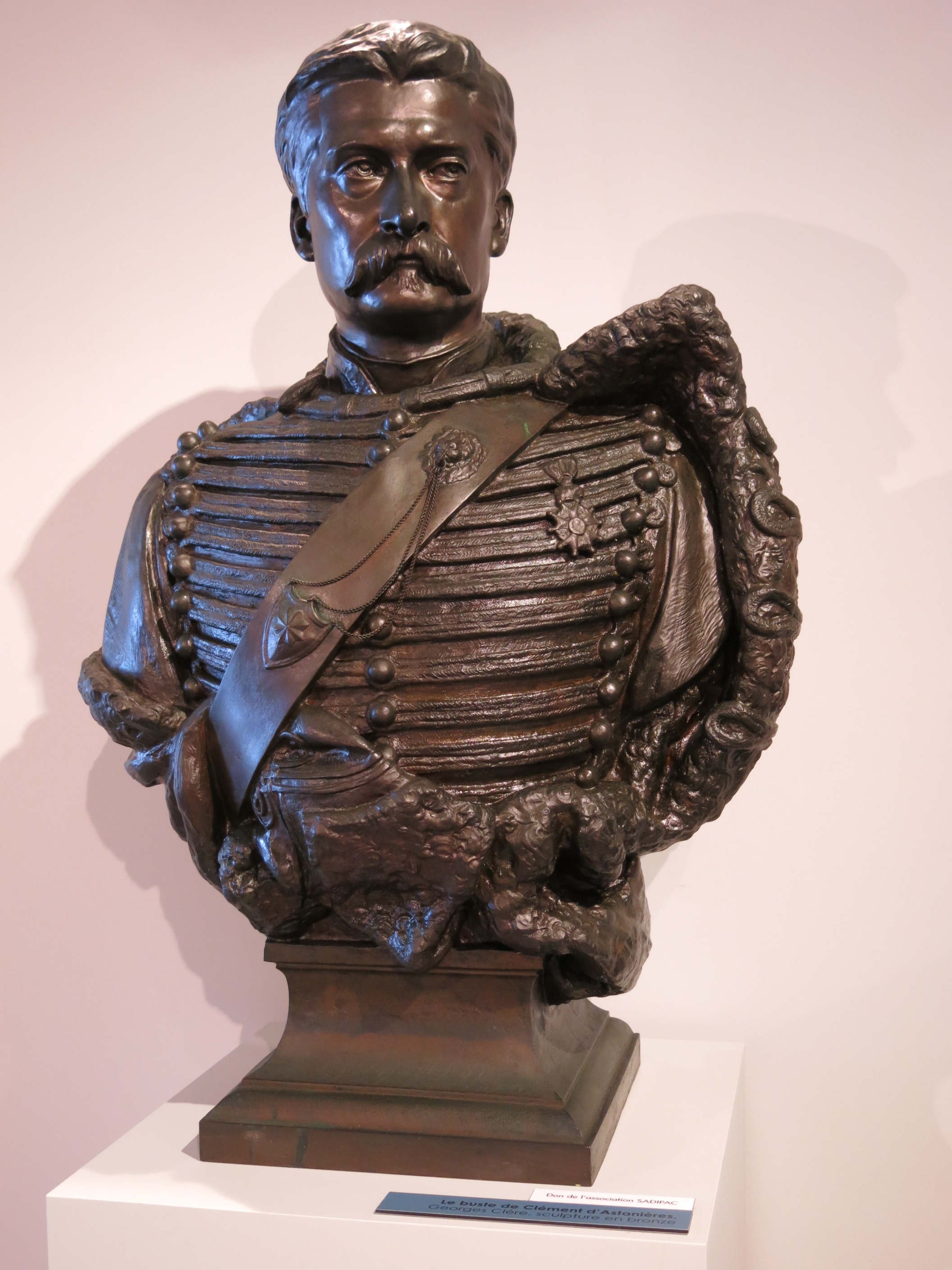 Georges Clère, Clément d'Astanières, Capbreton (Landes, France), maison de l'Oralité et du Patrimoine.